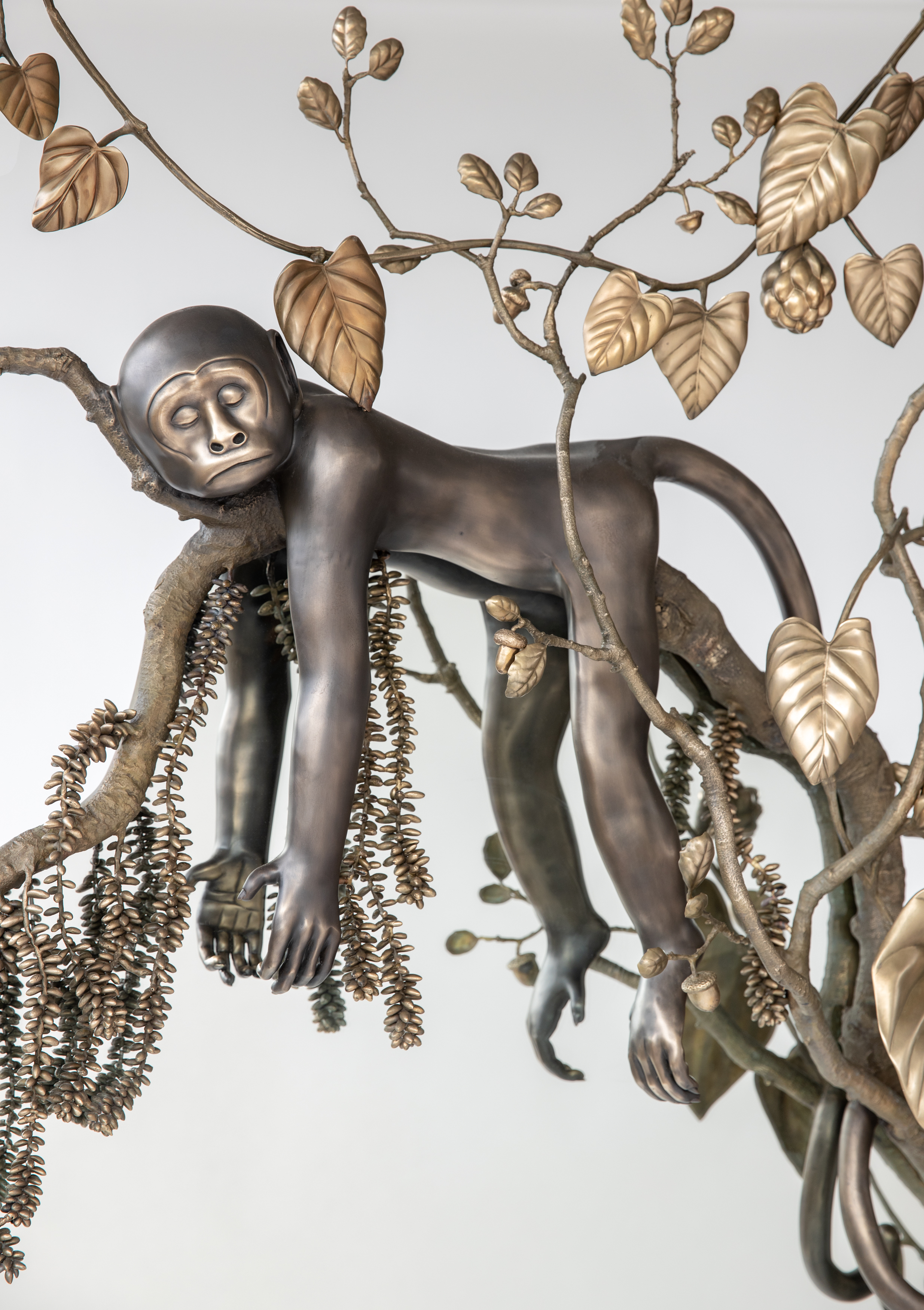 David Wiseman, Lost Valley Mirror (detail)